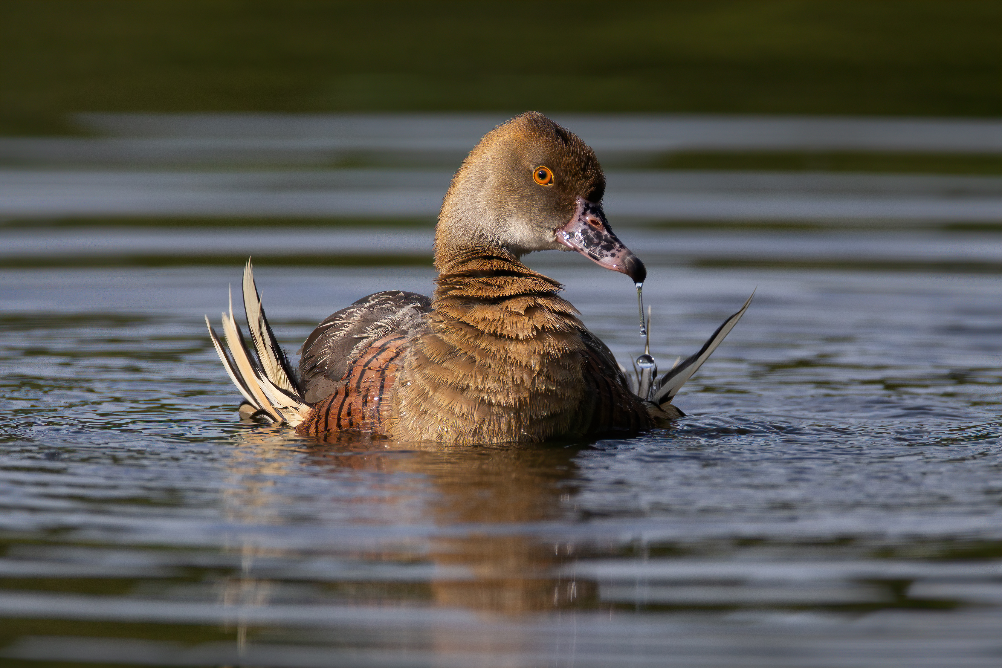 Plumed Whistling Duck (Dendrocygna eytoni), Macquarie University, New South Wales, Australia